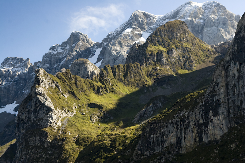 Dent du Midi (north west)